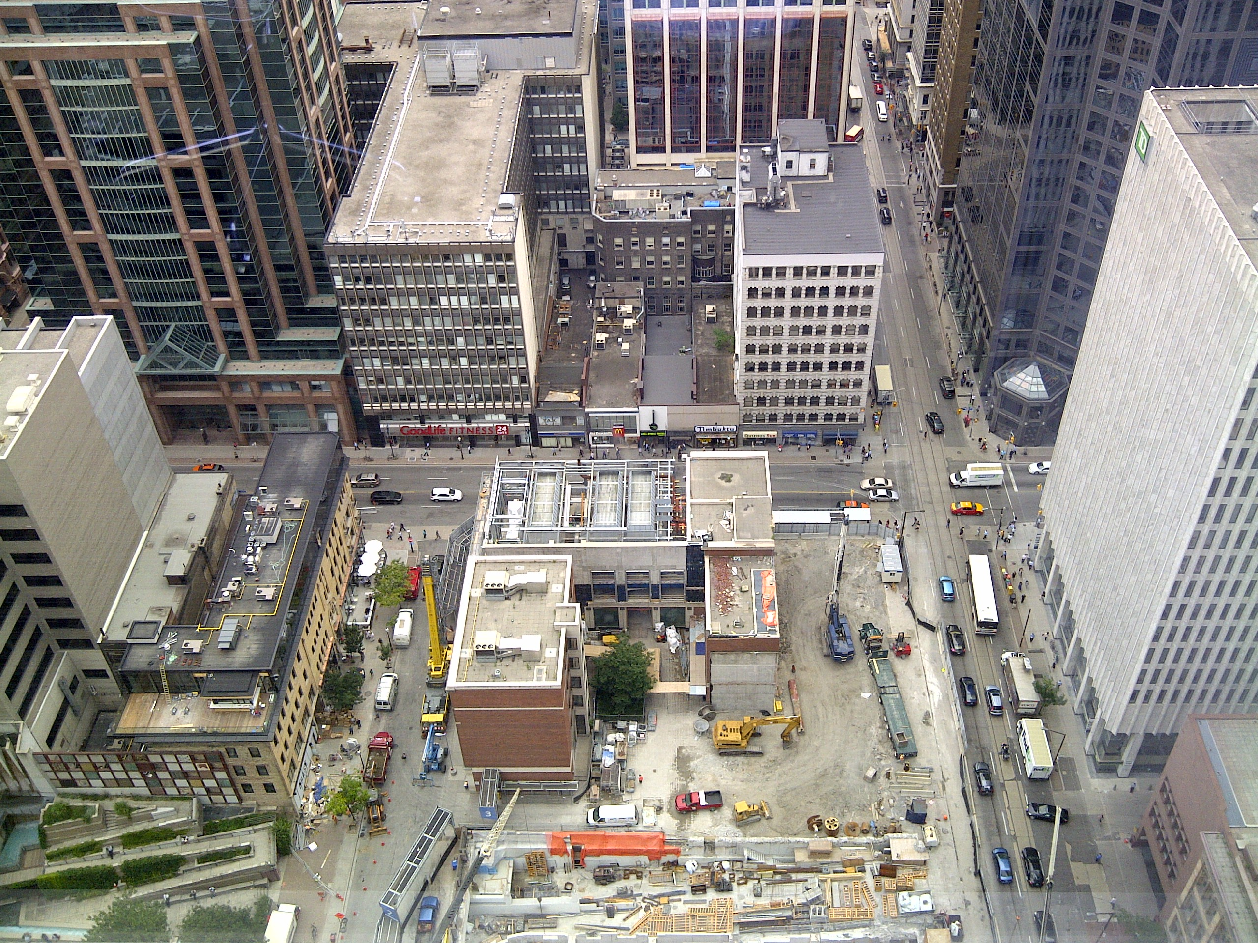 Bay Adelaide East under construction in July 2013. Toronto, Ontario, Canada.